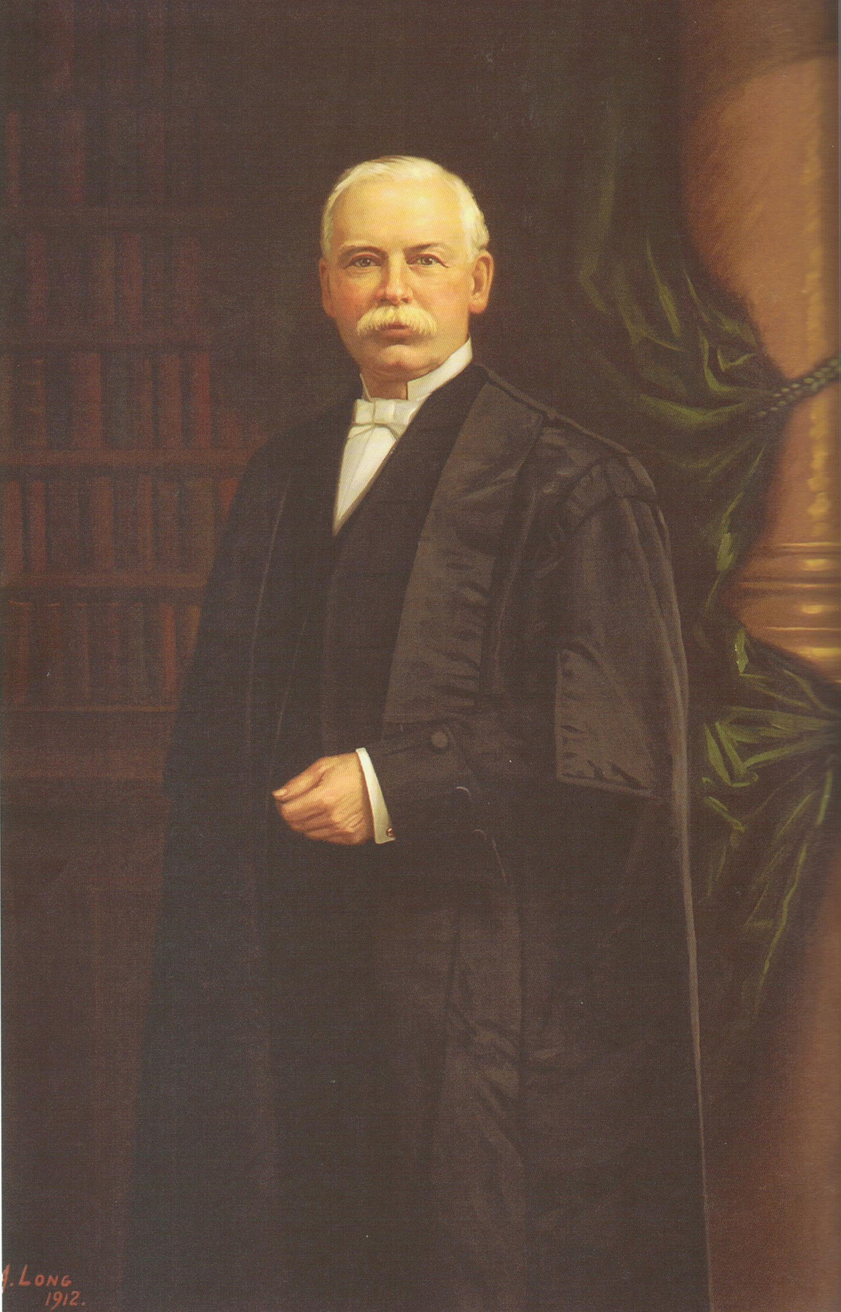 James Hamilton Ross, by Victor A. Long, 1912.